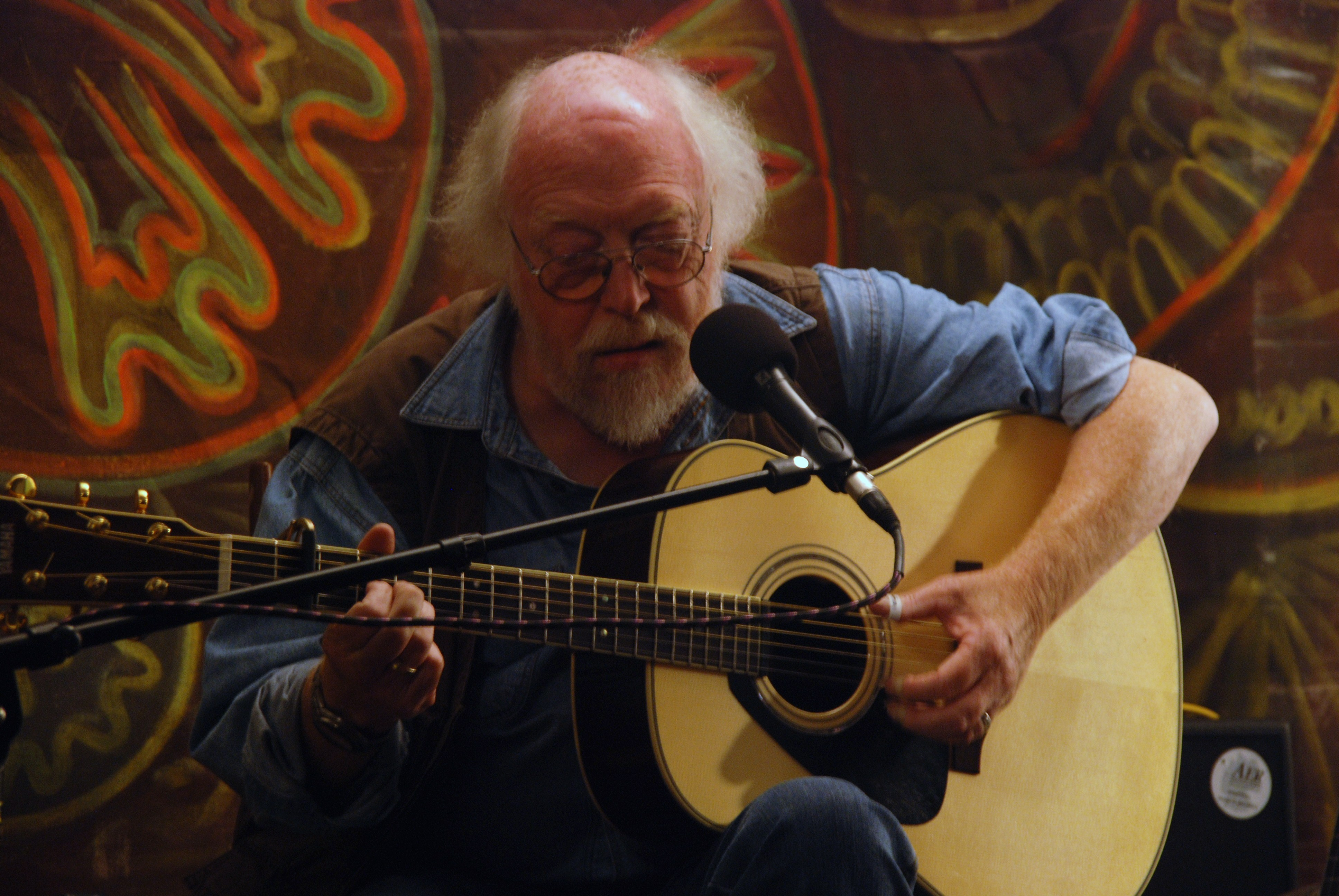 John Kirkbride playing Guitar